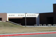 Outside view of Hays High School